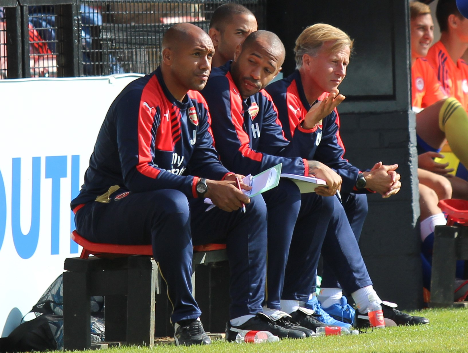 Arsenal youth team coaches Jason Brown and Thierry Henry during the game against Olympiacos.